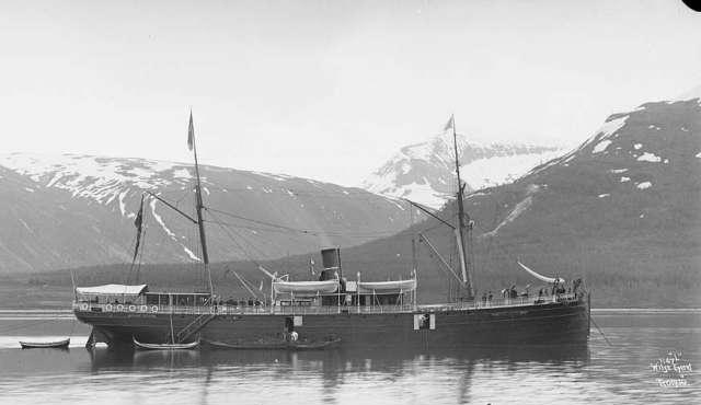 Norwegian passengership DS Haakon Jarl built in 1879. This ship sailed in the coastal express service (Hurtigruten) between 1914 and 1924. Picture taken near Tromsø.